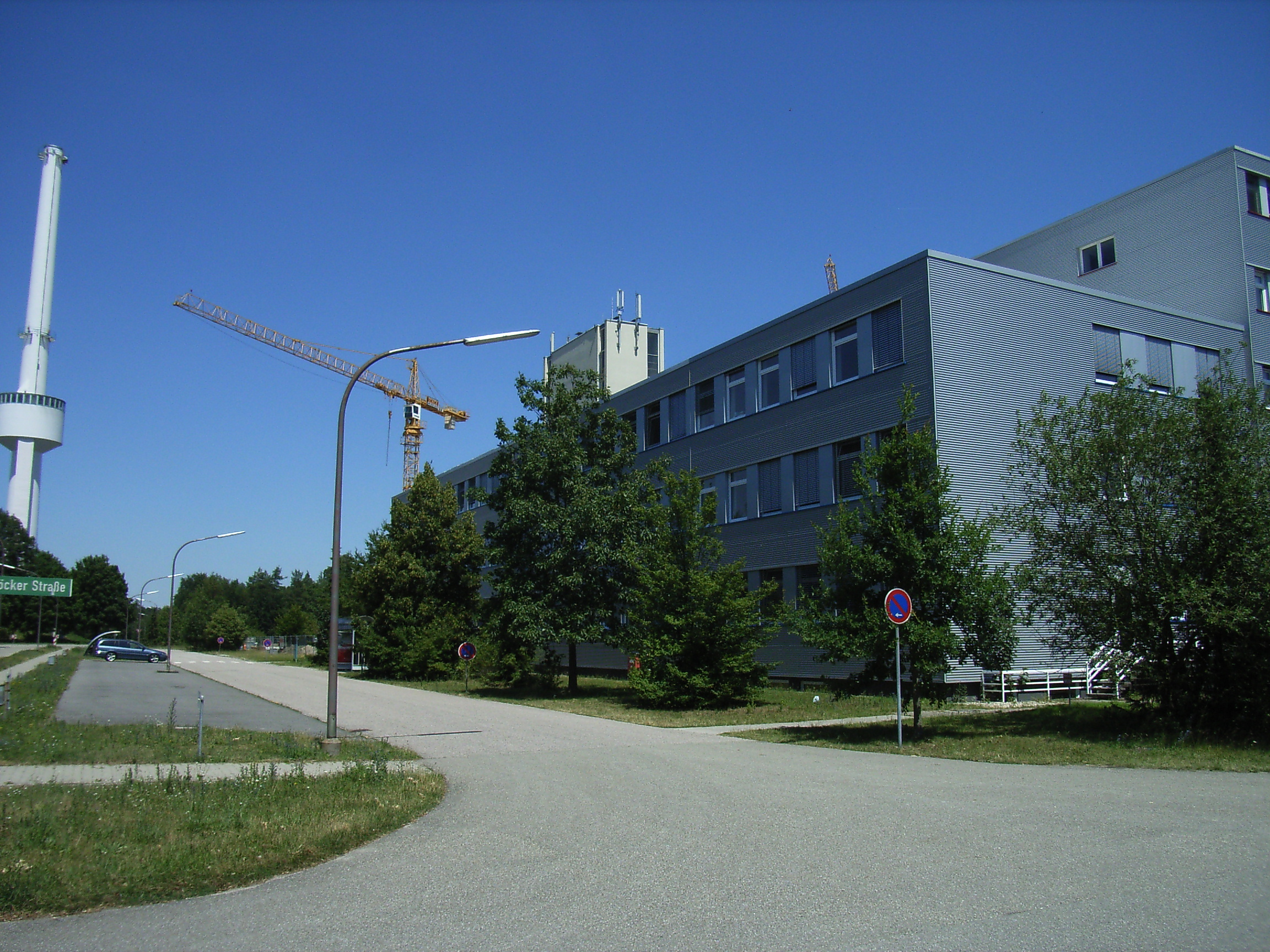 Building housing the Institute for Micro Process Engineering IMVT at Forschungszentrum Karlsruhe